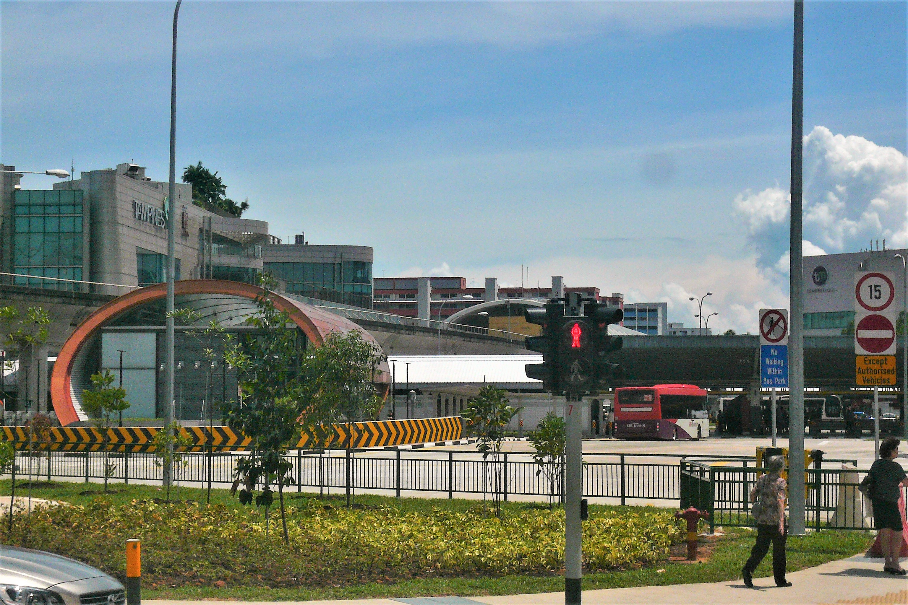 A view of Tampines' East West tracks and Downtown Line Exit D, with the bus interchange in view